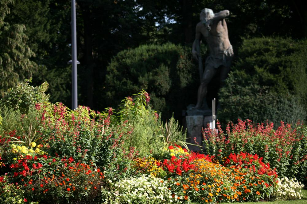 Parc Tivoli